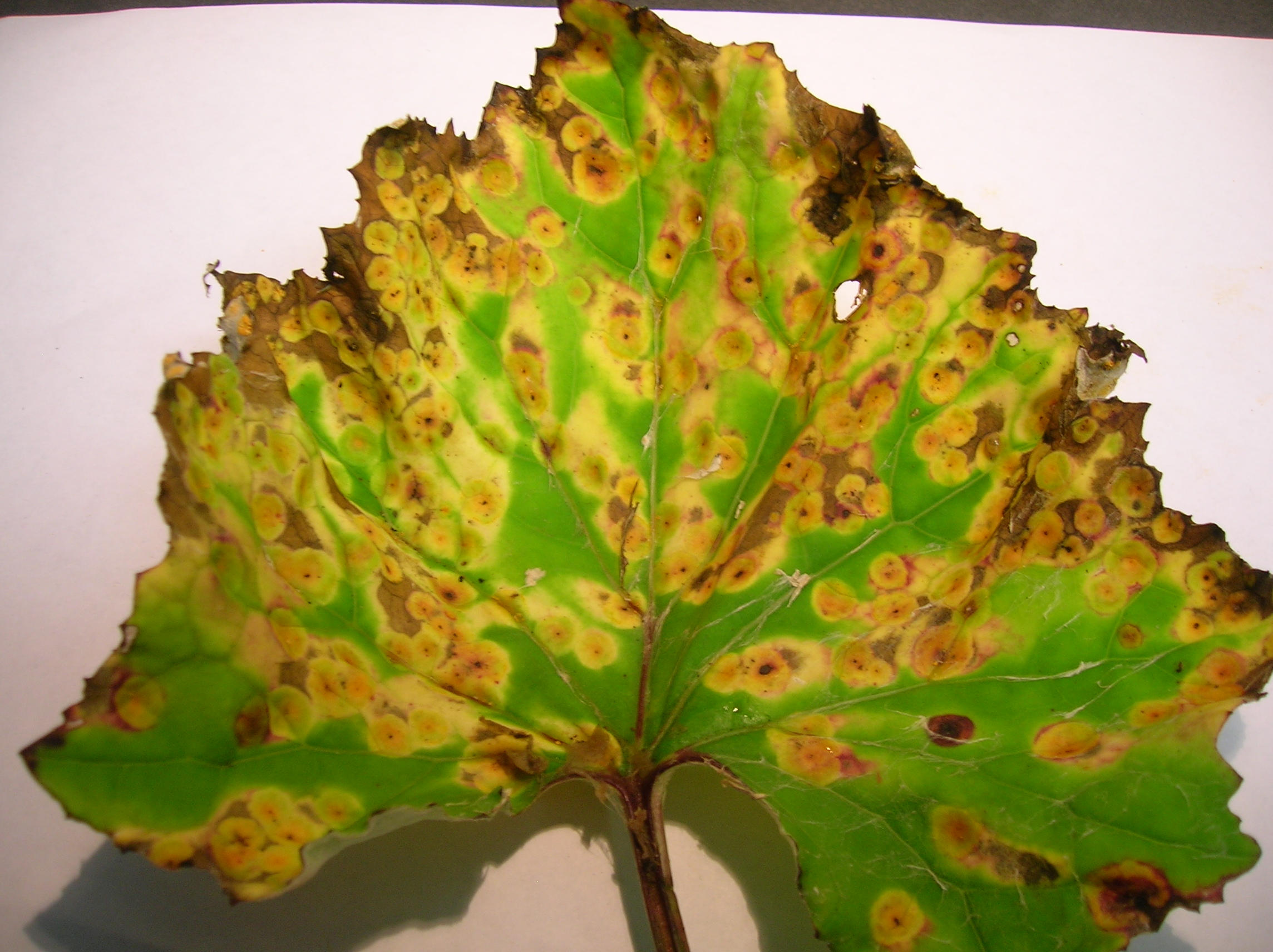 Puccinia poarum on Tussilago farafara. Lynn Glen, Dalry, Scotland.